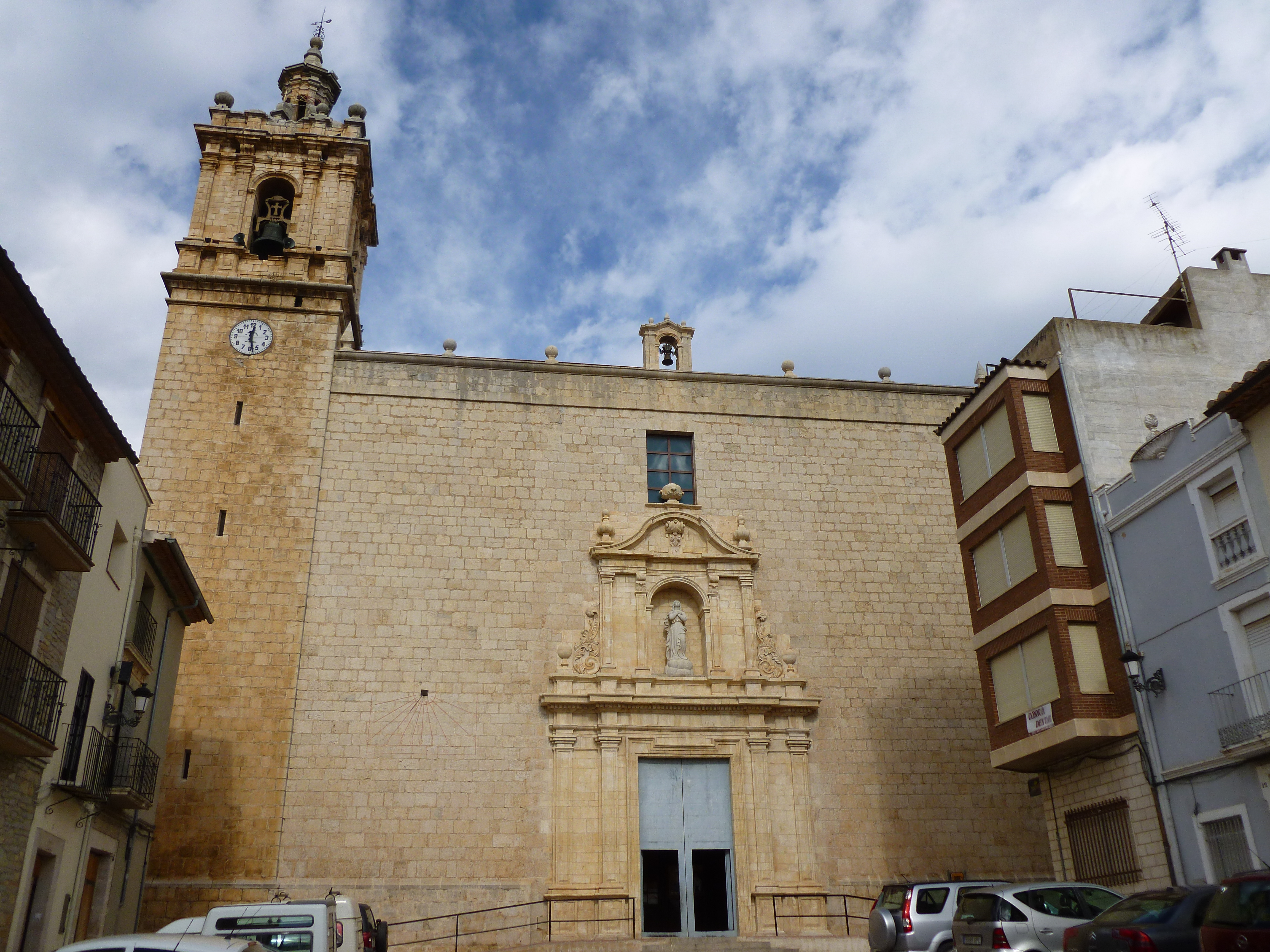 Church of The Assumption, Albocàsser 02.003-009.